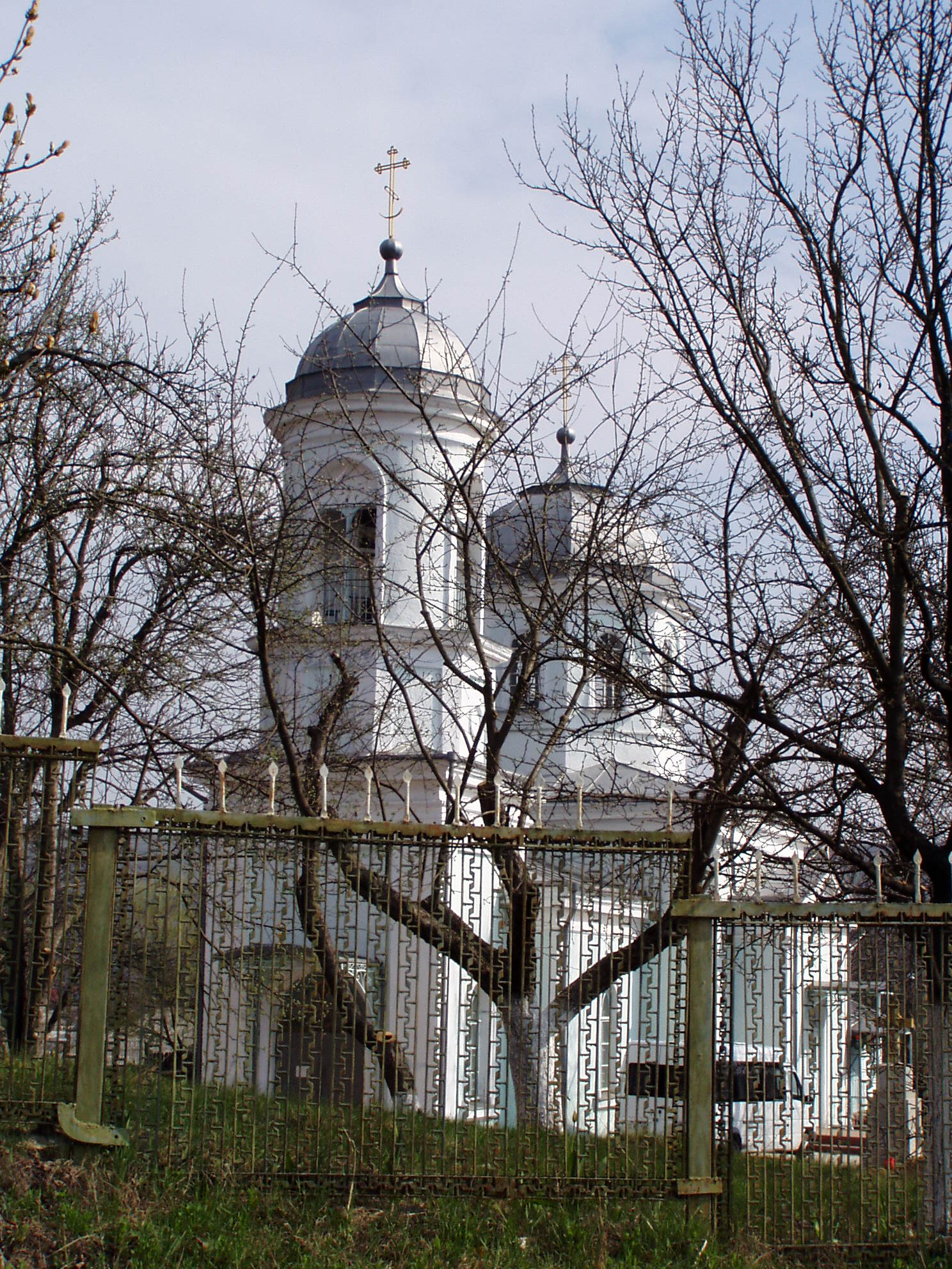 Orthodox church in Călăraşi, Moldowa.